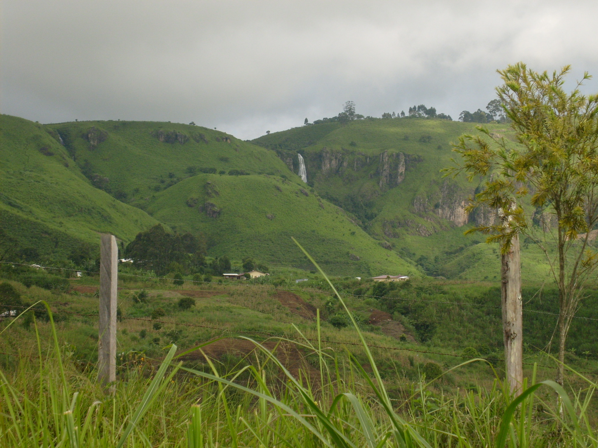 Cameroon is a very environmentally diverse country. Each region faces its own threats and challenges to the ecosystem. In the Northwest Region, unsustainable land use practices and overgrazing by nomadic Fulani cow herders have resulted in significant deforestation. Consequently, this has serious implications on the health of the watershed and the fertility of the soil.